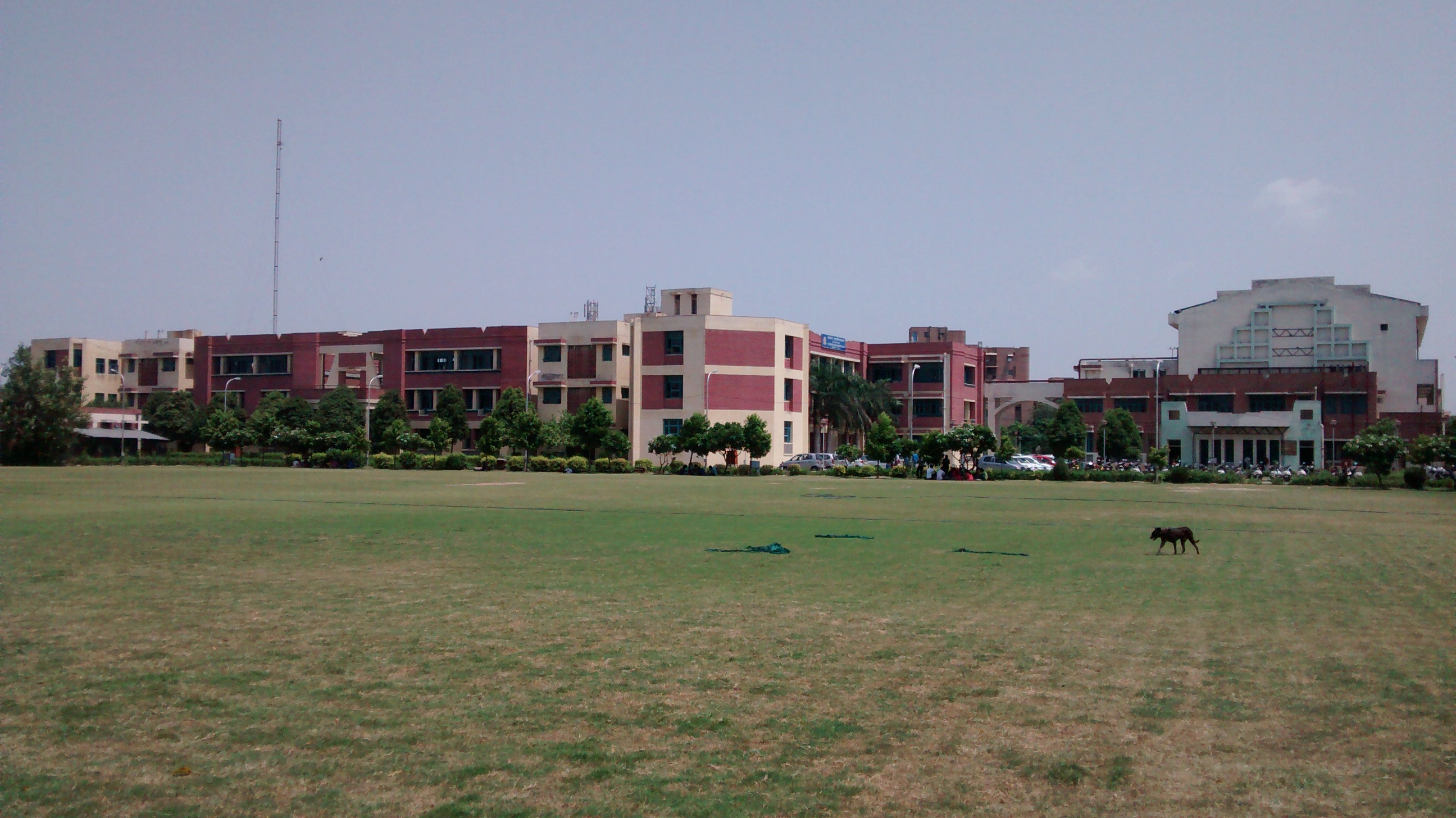 Delhi University's Keshav Mahavidyalya as viewed from Football ground .